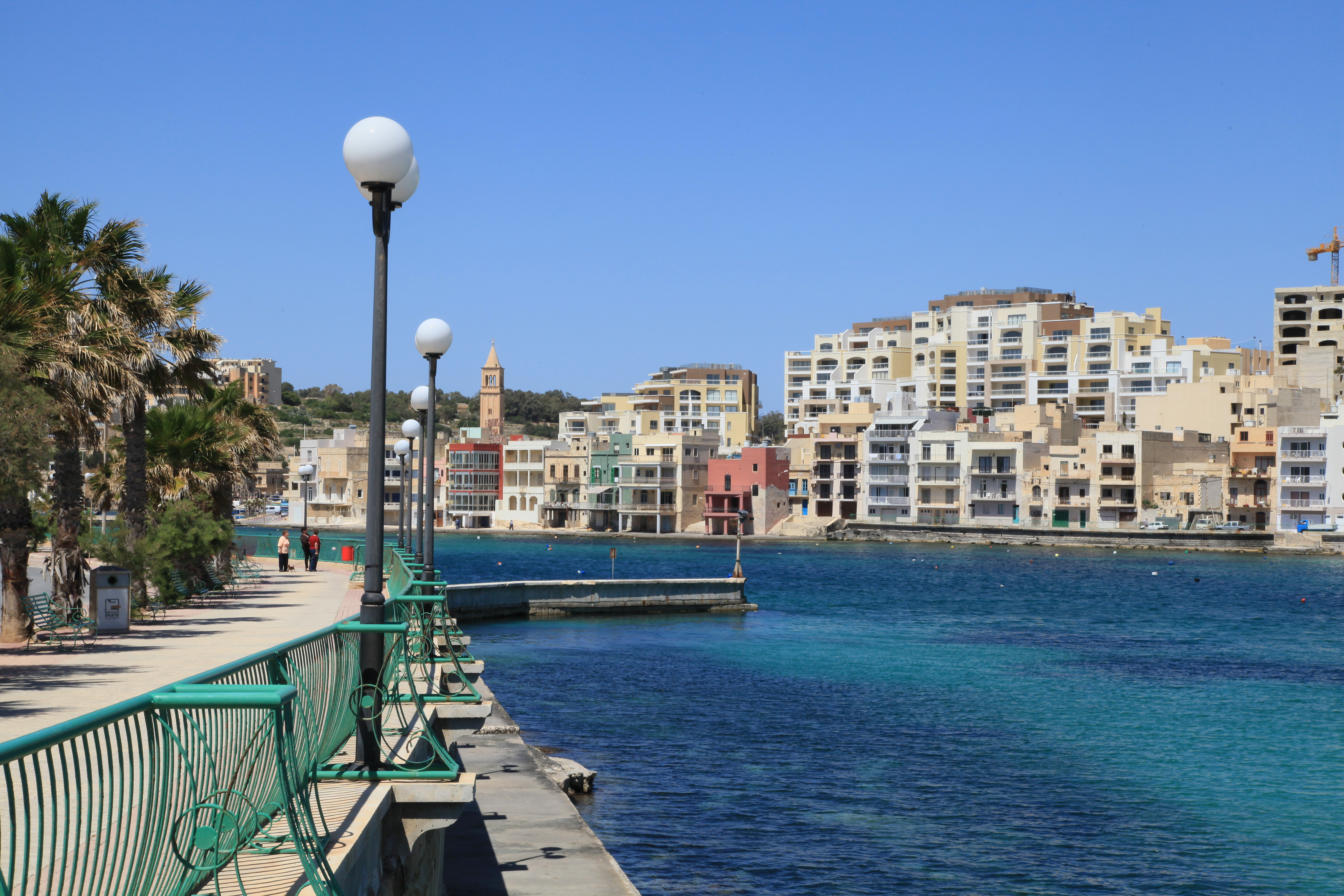 Triq is-Salini (lh), Marsaskala Bay and Triq iż-Żonqor (rh) in Marsaskala, Malta